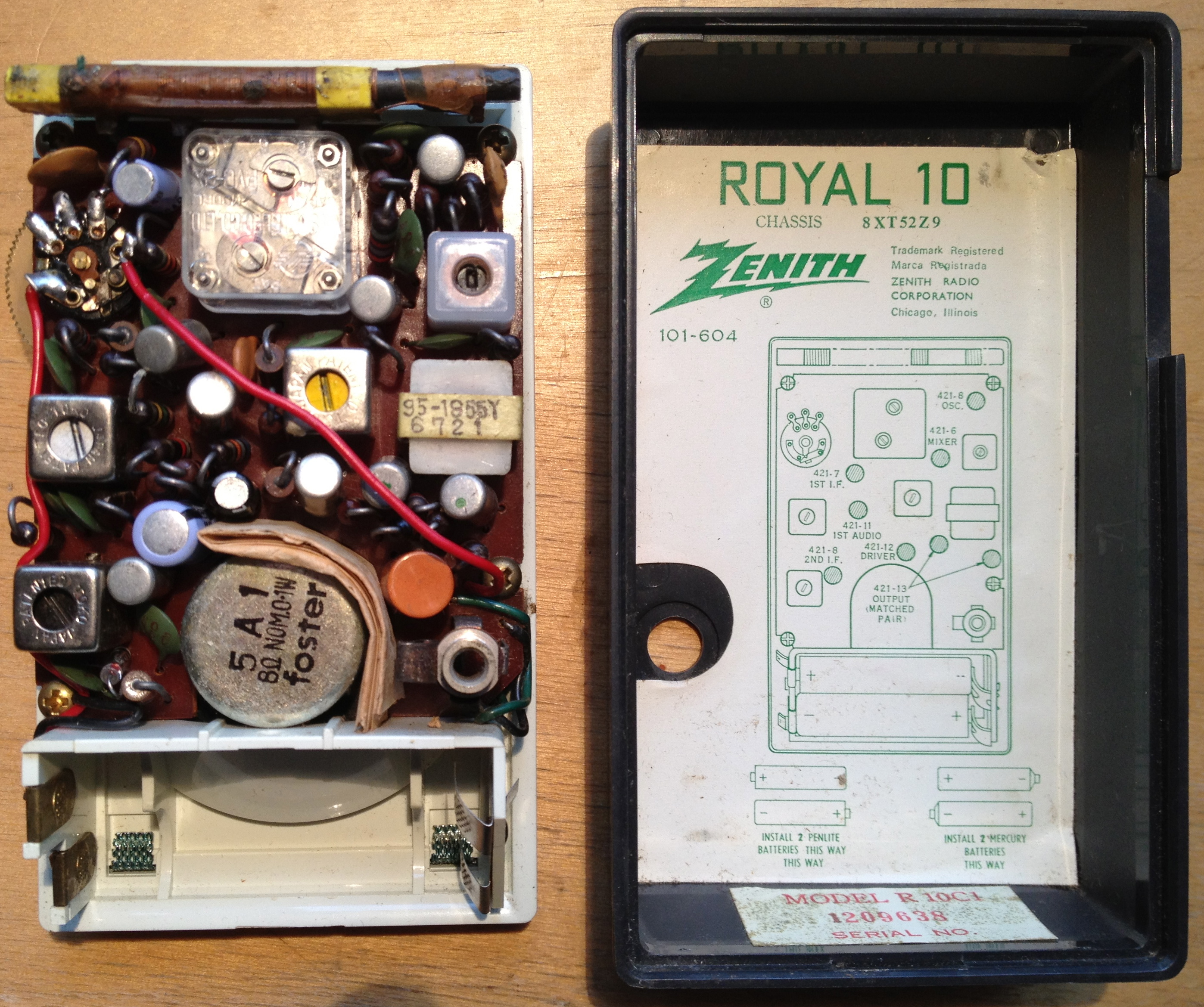 Zenith "Royal Ten" 8-transistor radio circa 1965, circuitry with cover removed. Note that diagram inside back cover was published before 1970 and has no copyright notice. See Zenith 8-transistor radio.agr.jpg for view of unit's front.